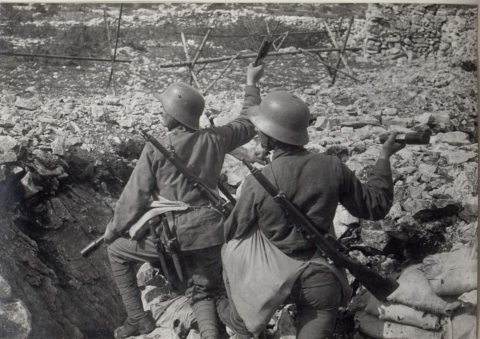 Austro-Hungarian soldiers with German Stahlhelm (left) and Austrian Berndorfer helmet (right), Isonzo front.